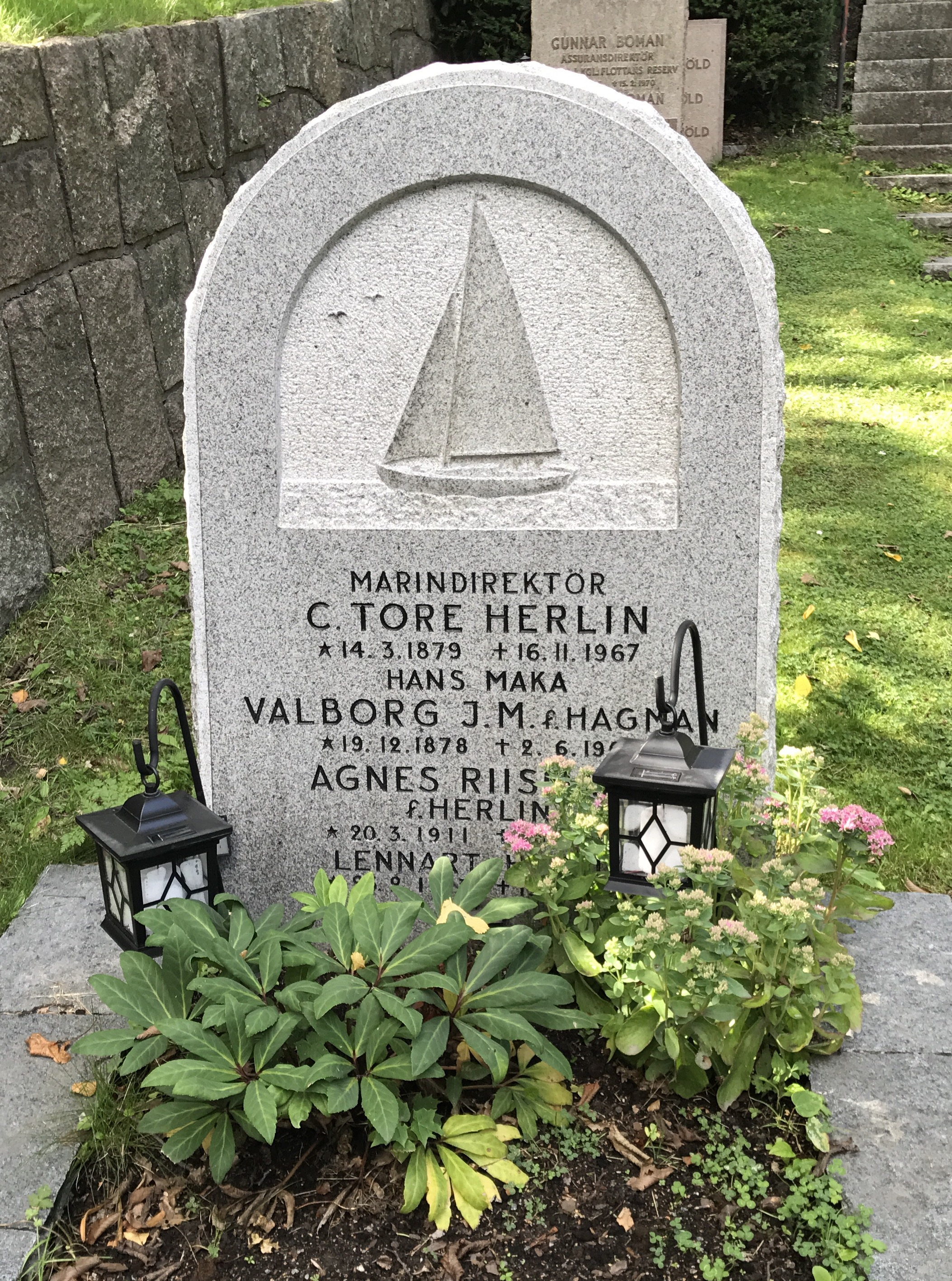 Grave Tore Helin